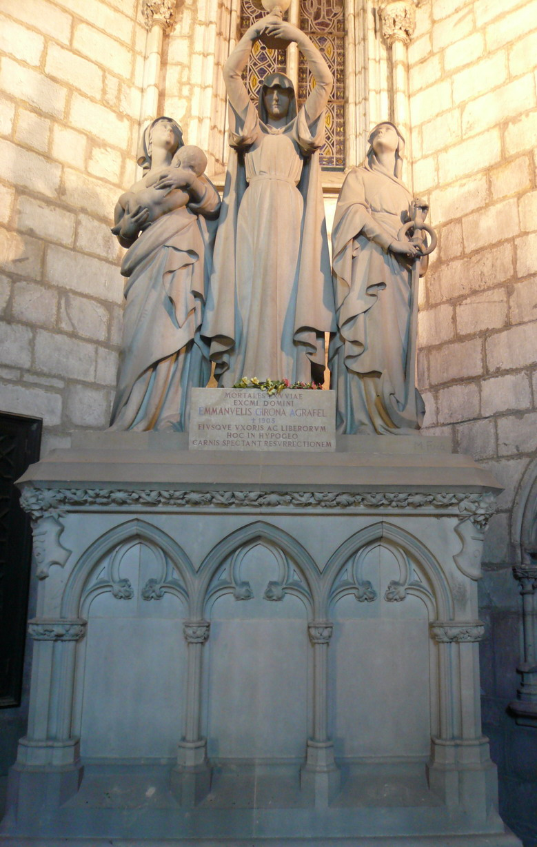 Manuel Girona tomb, cloister, cathedral of Barcelona